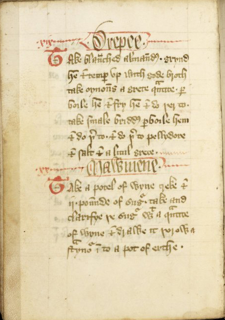 Page from Forme of Cury, a cookbook from the Late Middle Ages. This manuscript is dated to the late 14th century and is part of the Rylands Medieval Collection as English MS 7 (previously Crawford MS 18).[1]